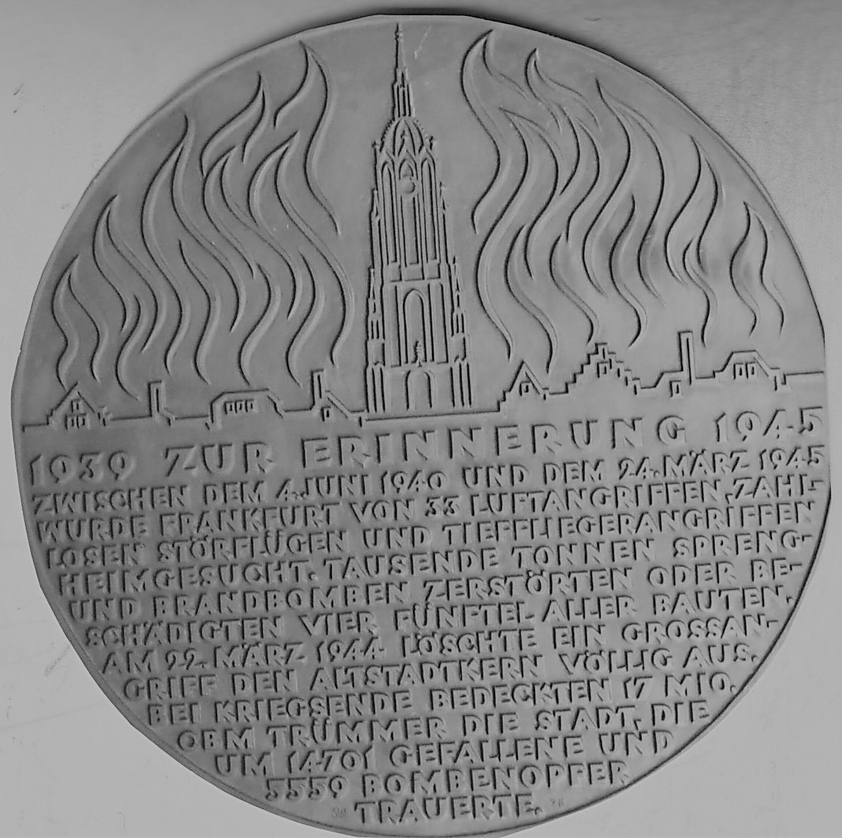 Frankfurt Bombardements Memory Plate 1978